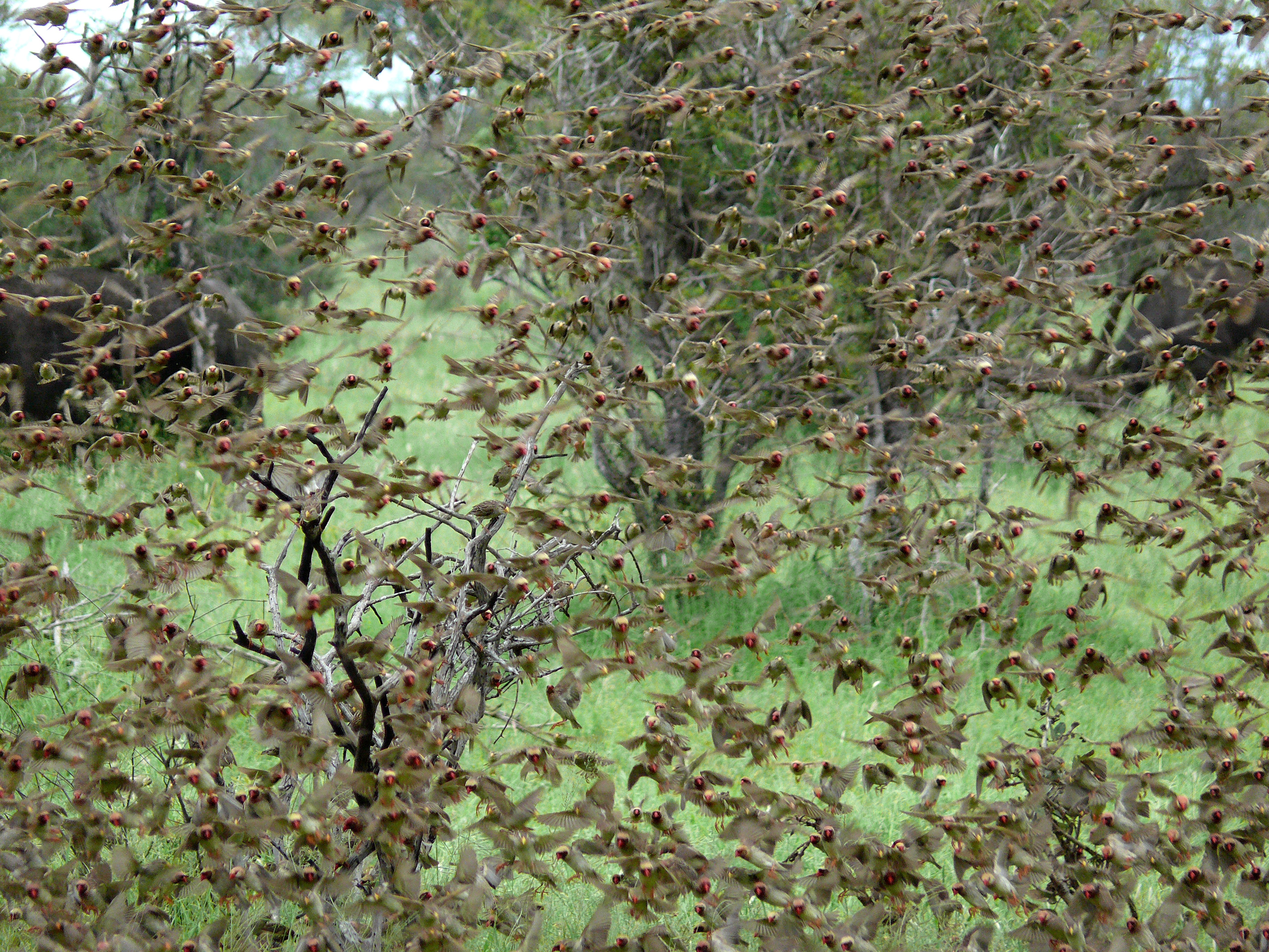 H1-4 South of Olifants, Kruger NP, SOUTH AFRICA